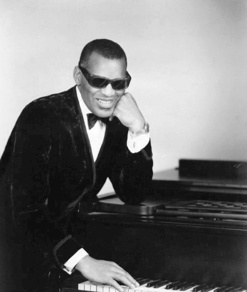 Photo of Ray Charles in one of his classic poses at the piano.